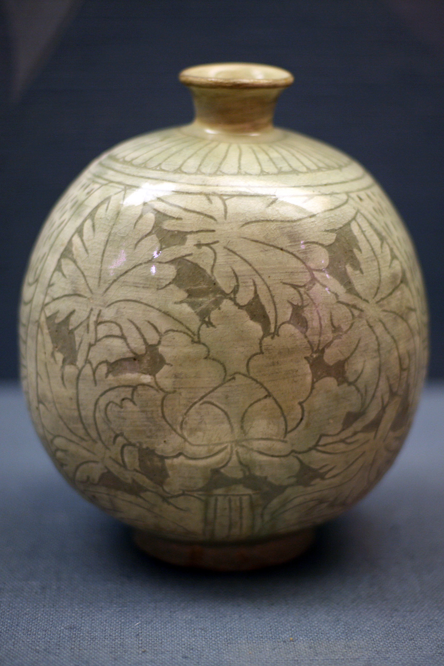 Wine Bottle, 15th-16th century. Punchong stoneware carved slip decoration. Brooklyn Museum, Ella C. Woodward Memorial Fund, 75.61.